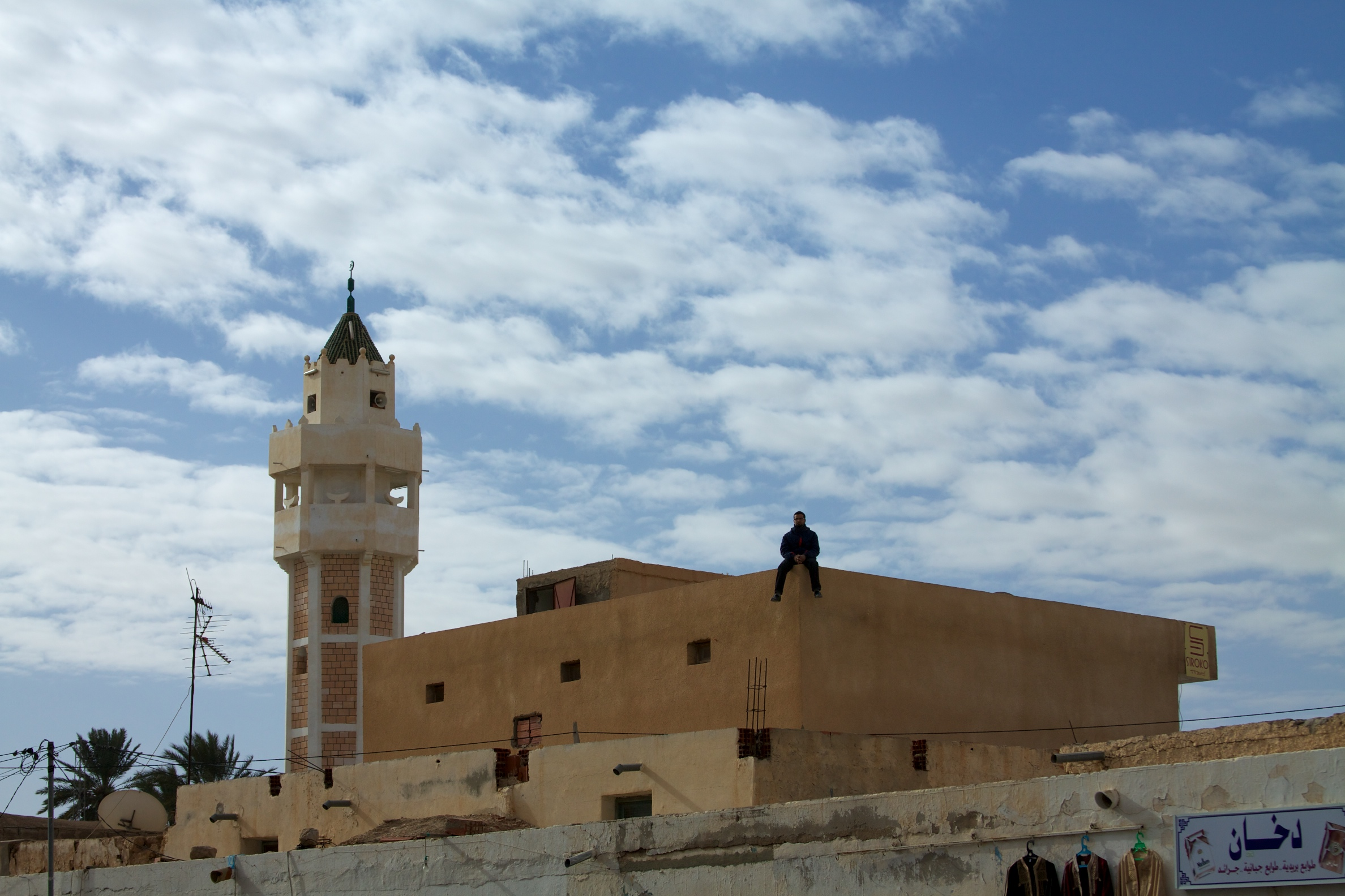 Tunisia 10-12 - 064 - Douz and the Festival of the Sahara